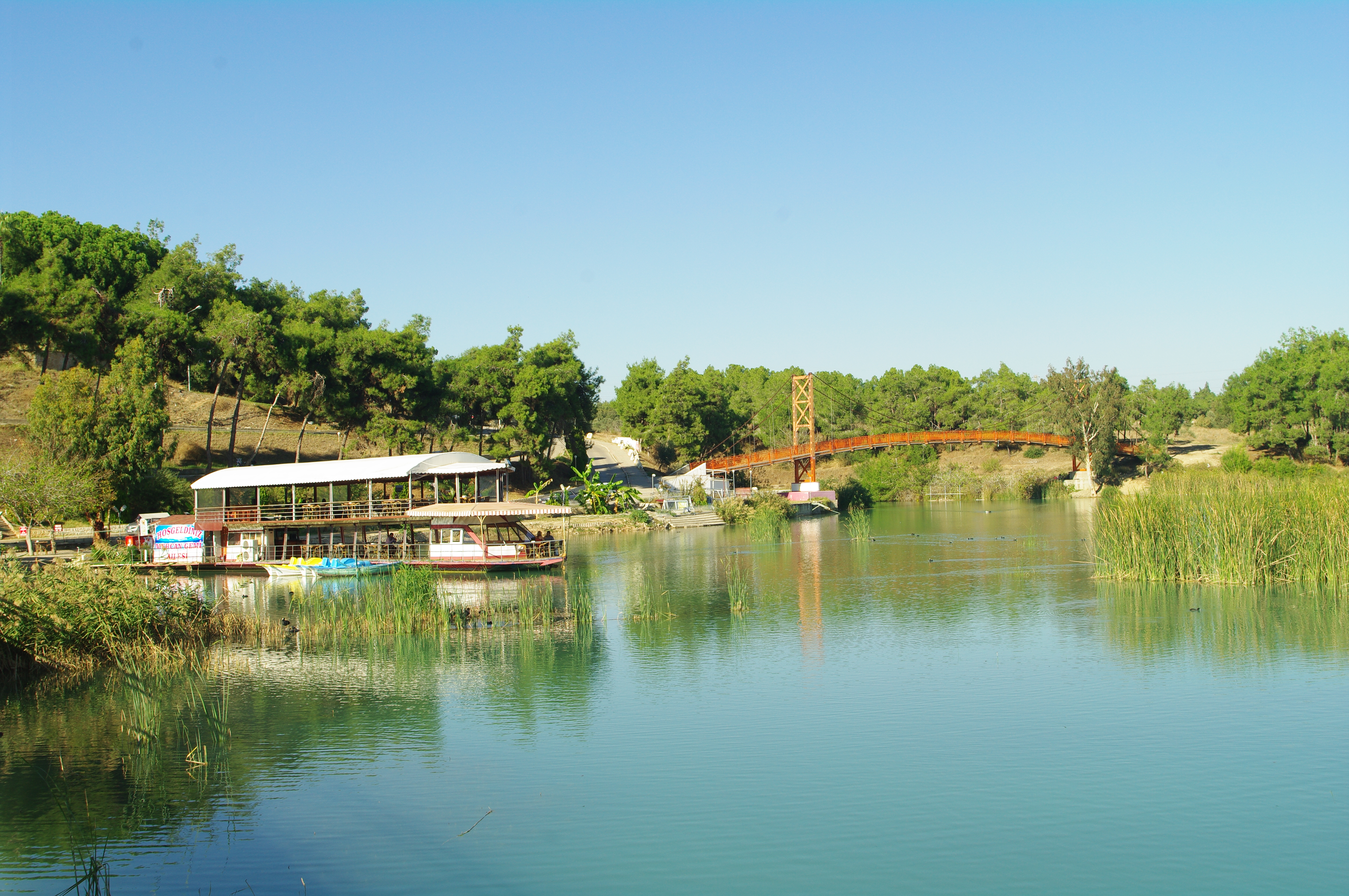 A view of Eski Baraj (literaly meaning Old Dam in Turkish) Dam Lake on Seyhan River which is used irrigation purposes. Adana, Turkey.